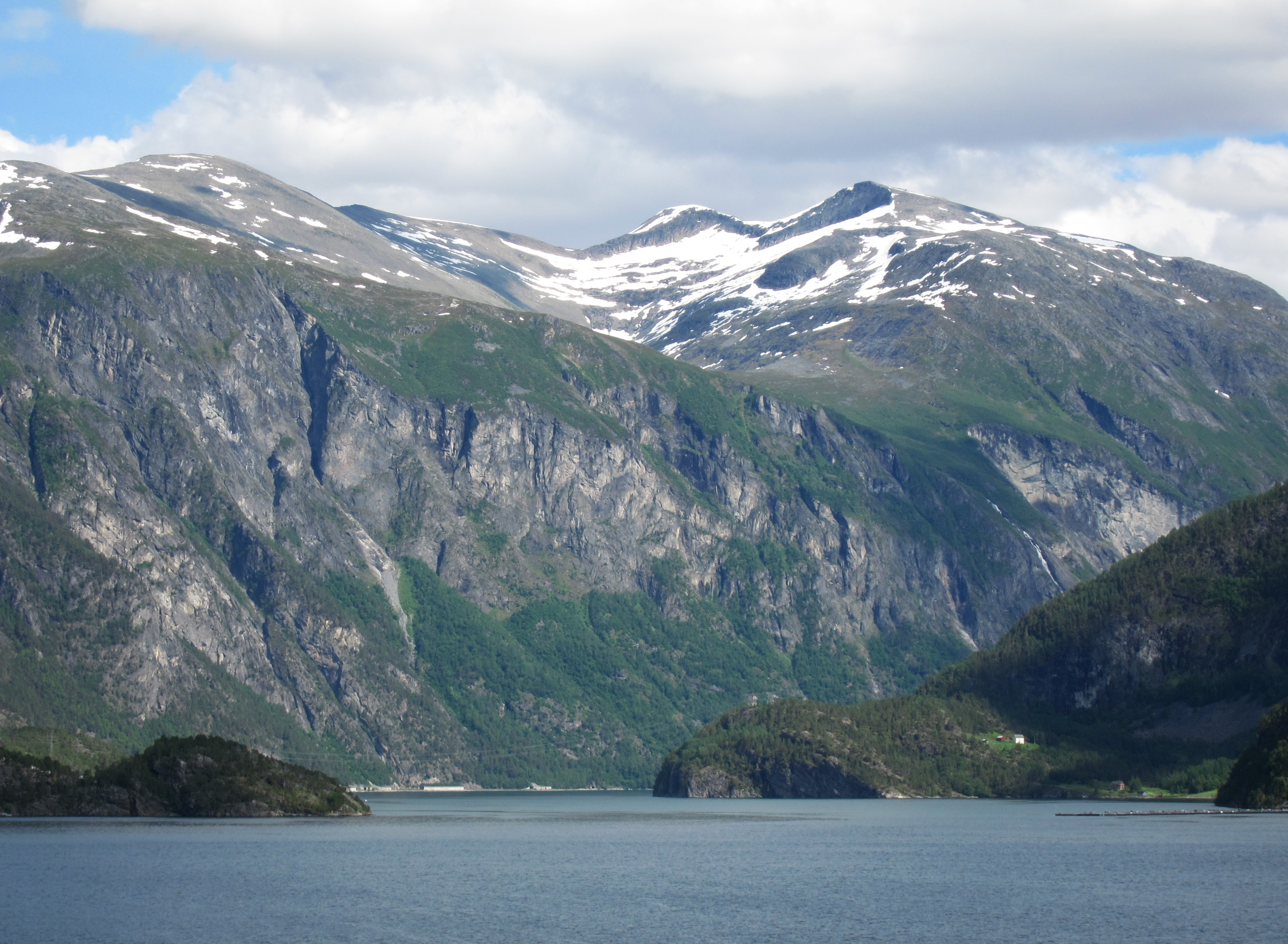 Norddalsfjorden med Tafjorden bak, Osvika, Tafjordvegen, Norway